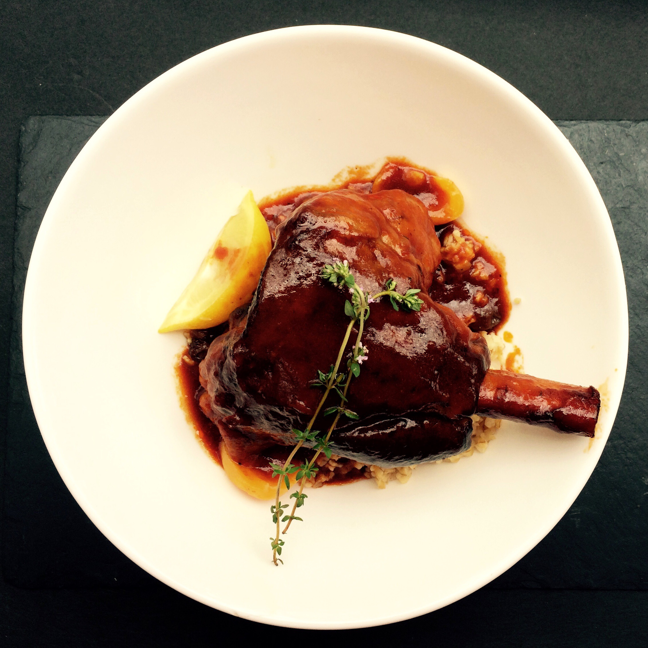 Lamb cooked in a typical French way : Souris d'agneau